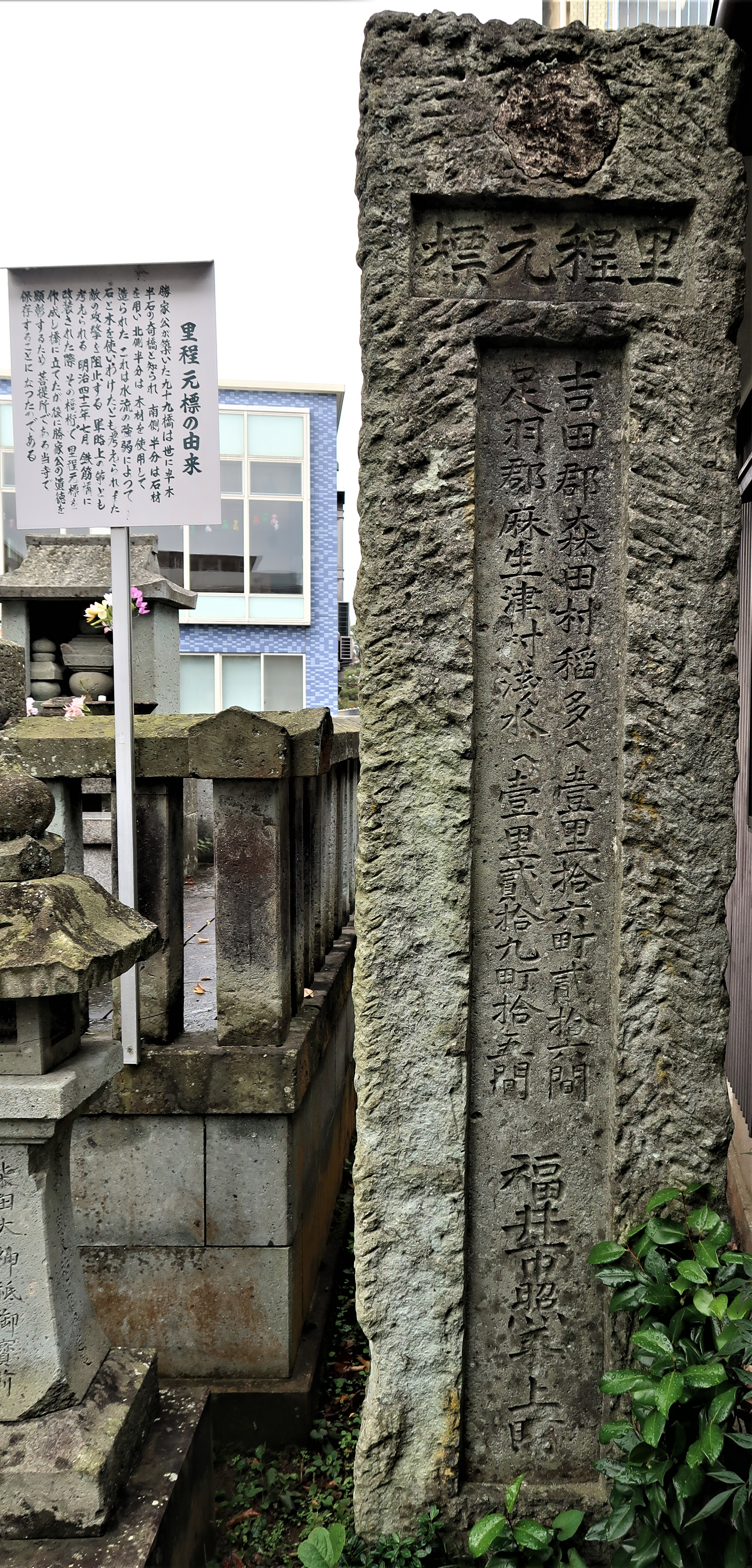 Milestone of Fukui Pref.